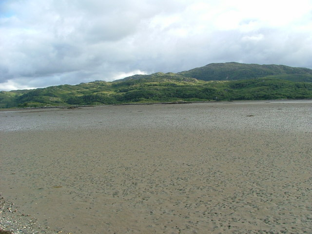 South across the mud of Kentra Bay If it weren't for the small islands, this square would be mud and sand. Kentra Bay has an amazing tidal reach, and the tide seems to race in across the flats.